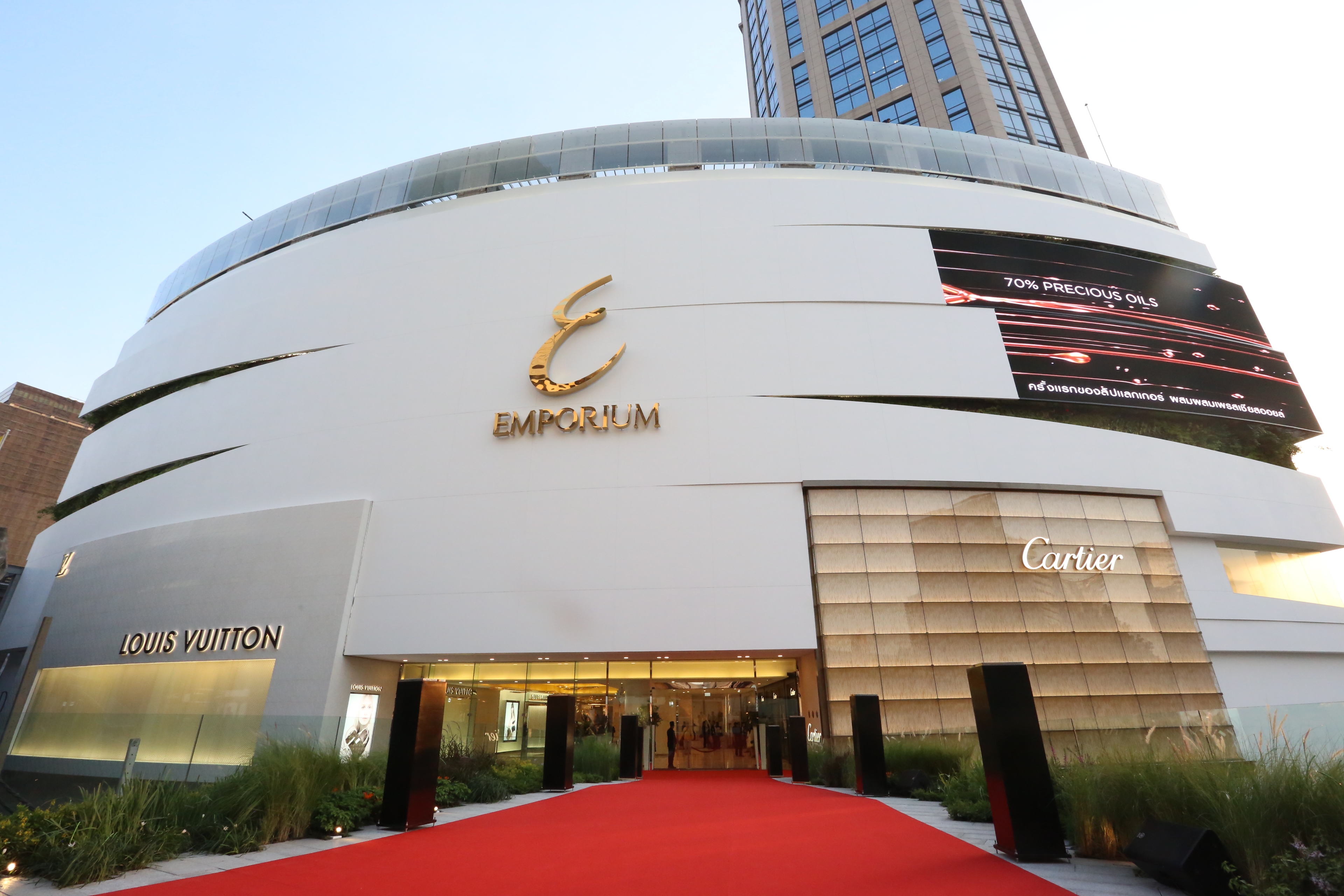 Emporium Shopping Complex 2015